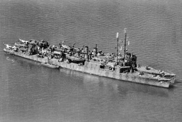 The U.S. Navy high-speed transports USS Humphreys (APD-12) and USS Sands (APD-13) at Townsville, Queensland (Australia), in May 1943. both ships are painted in Modified Measure 12 camouflage.